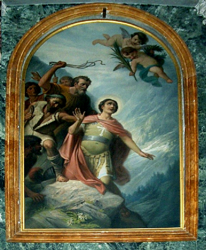 Ivrea, Duomo, painting that represents St. Besso (one of the patron saint of Ivrea)